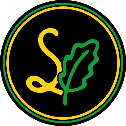 Logo of Skabidean music band.